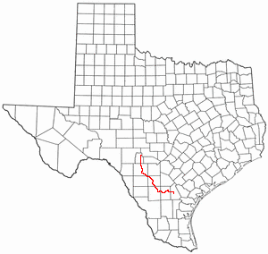 Adapted from Wikipedia's TX county maps